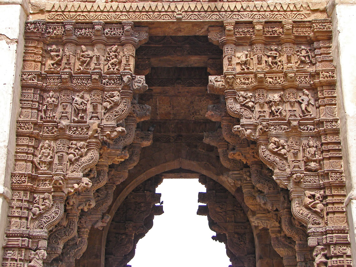 Vadodara Gate & its adjacent construction